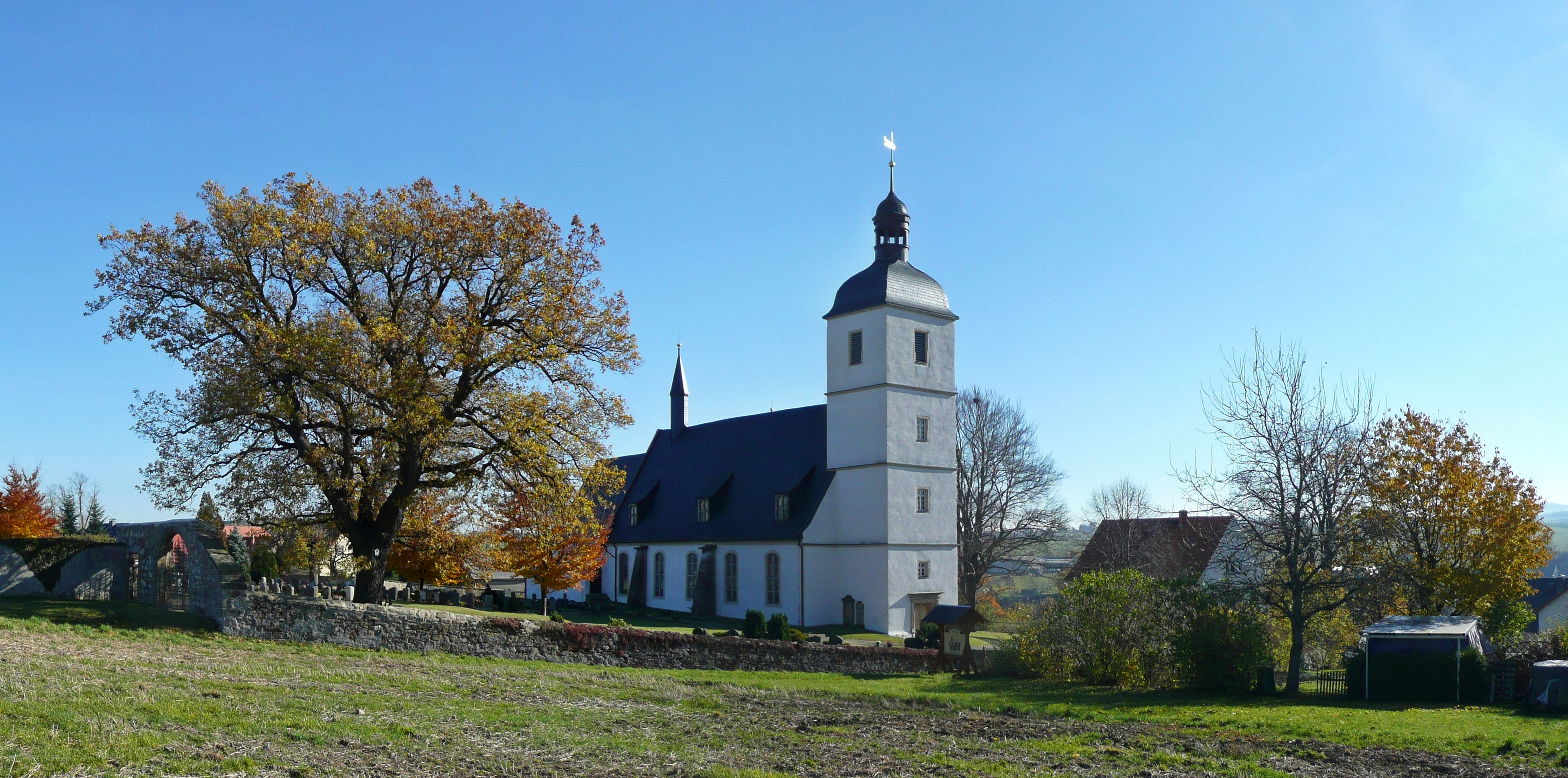 This image shows the evangelic church in Reinhardtsgrimma in Saxony.